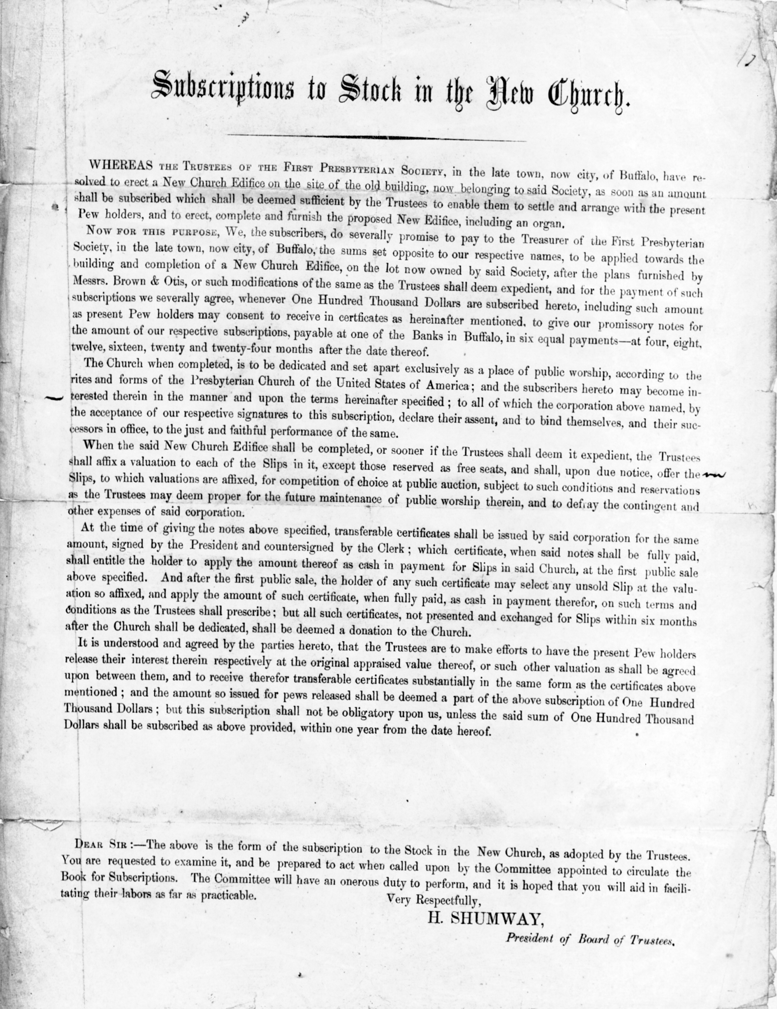 Scan of the 1853 Subscription Document proposing to erect a new edifice on the same site as the Old Brick church. By January 1854 over $100,000.00 was raised, then by April plans for a new building were selected and bids were advertised. However, no responsible architect or builder was found that would undertake the project, so the plan was abandoned and the funds were returned to the subscribers. Source: First Presbyterian Church Archives.